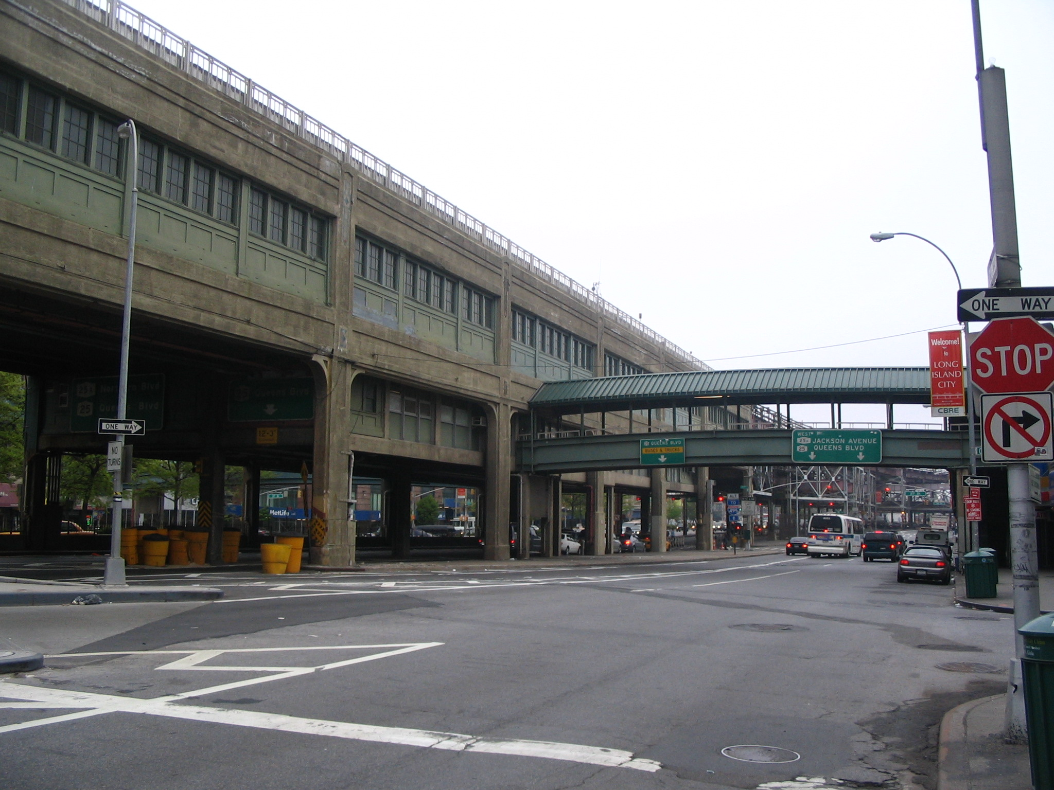 looking across Crescent Street along Queensboro Plaza South - 42nd Ave